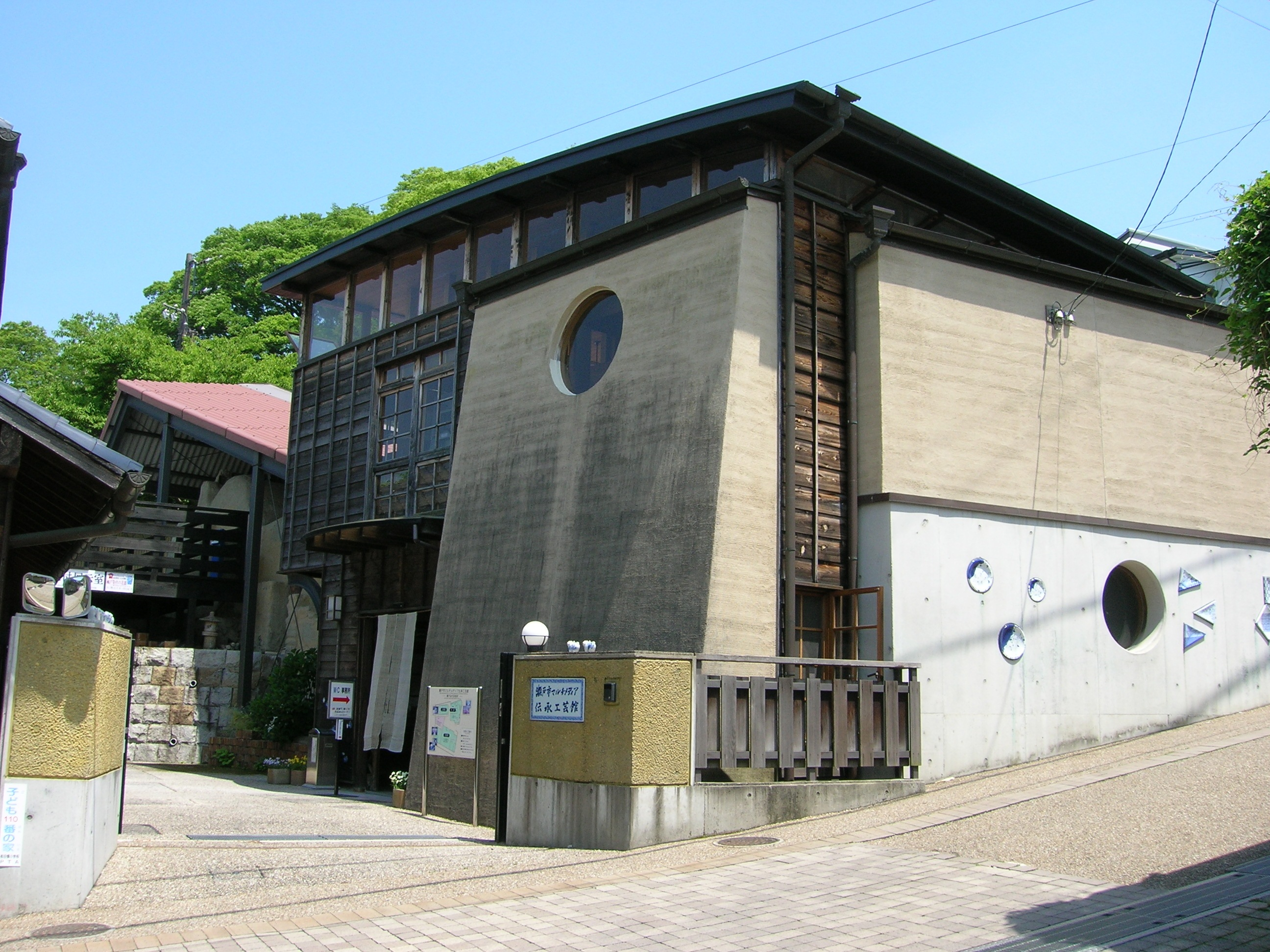 Seto Municipal Center of Multimedia and Traditional Ceramics, Main hall. Loc: Seto city, Aichi Prefecture, Japan. 瀬戸市マルチメディア伝承工芸館（現・瀬戸染付工芸館）・本館 撮影場所 愛知県瀬戸市